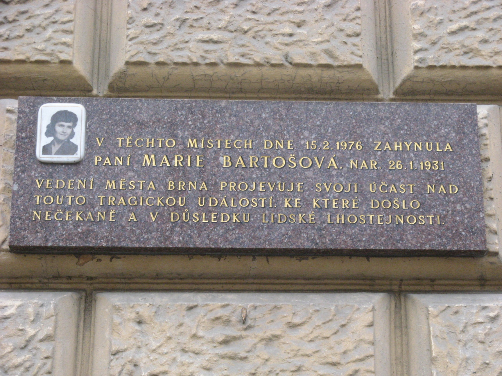 Memorial plaque of Marie Bartošová, Brno - Czech Republic